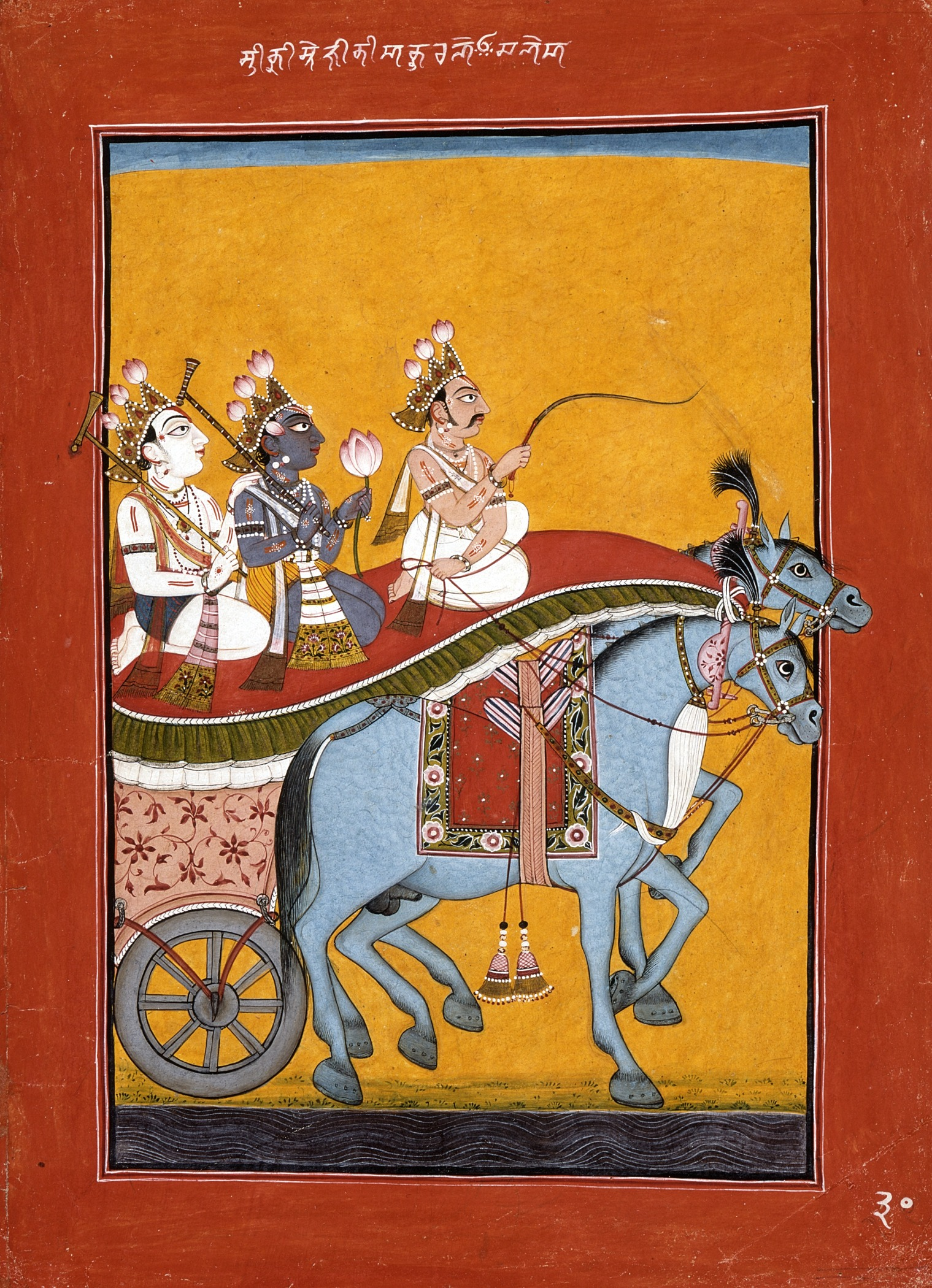 India, Jammu and Kashmir, Mankot, circa 1730 Drawings; watercolors Opaque watercolor and gold on paper Gift of the Michael J. Connell Foundation (M.71.49.1) South and Southeast Asian Art